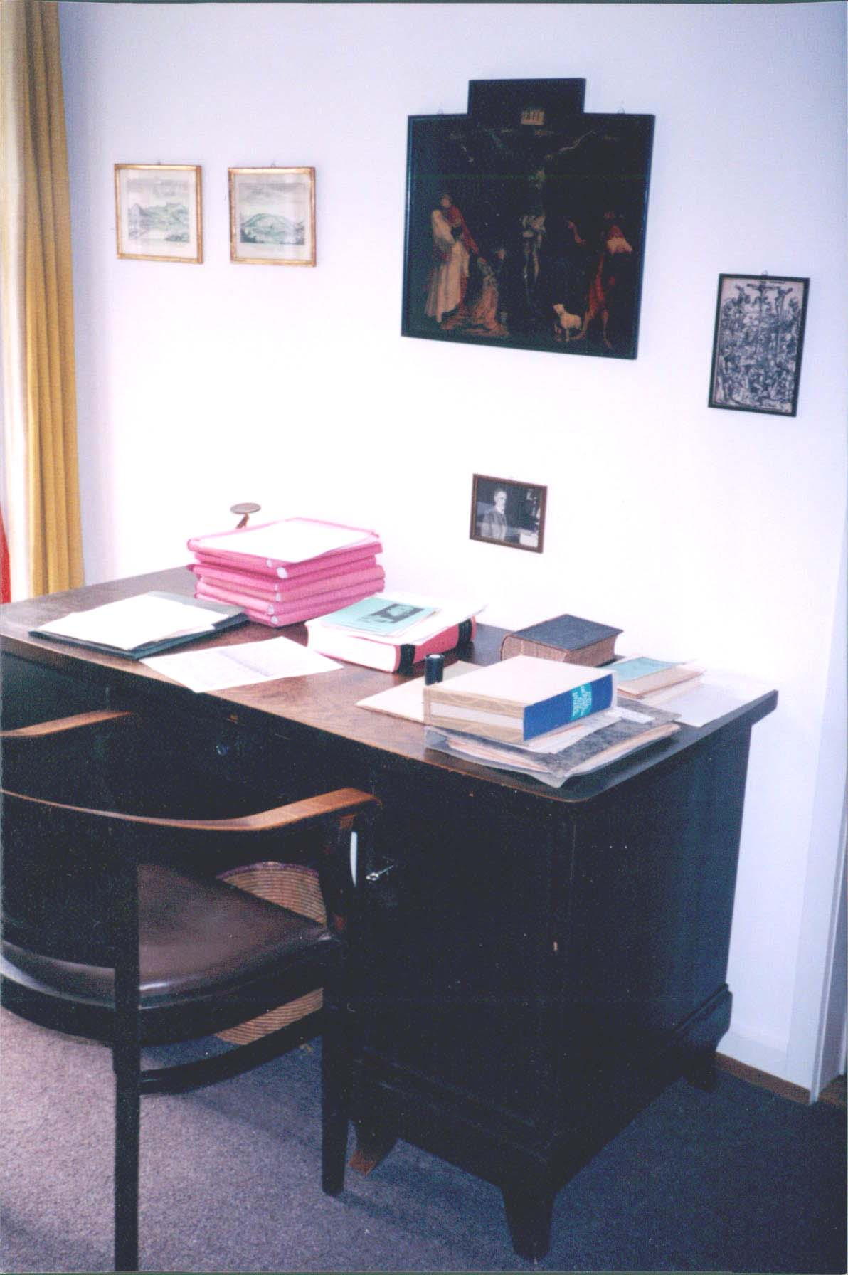 The painting of Matthias Grunewald’s ‘Crucifixion‘ scene from the Isenheim Altar. Barth's entire theology was Christocentric and what Barth liked about this painting was the long finger that pointed to Christ while holding the scriptures. (Below hangs a picture of Barth's after, Fritz Barth.)